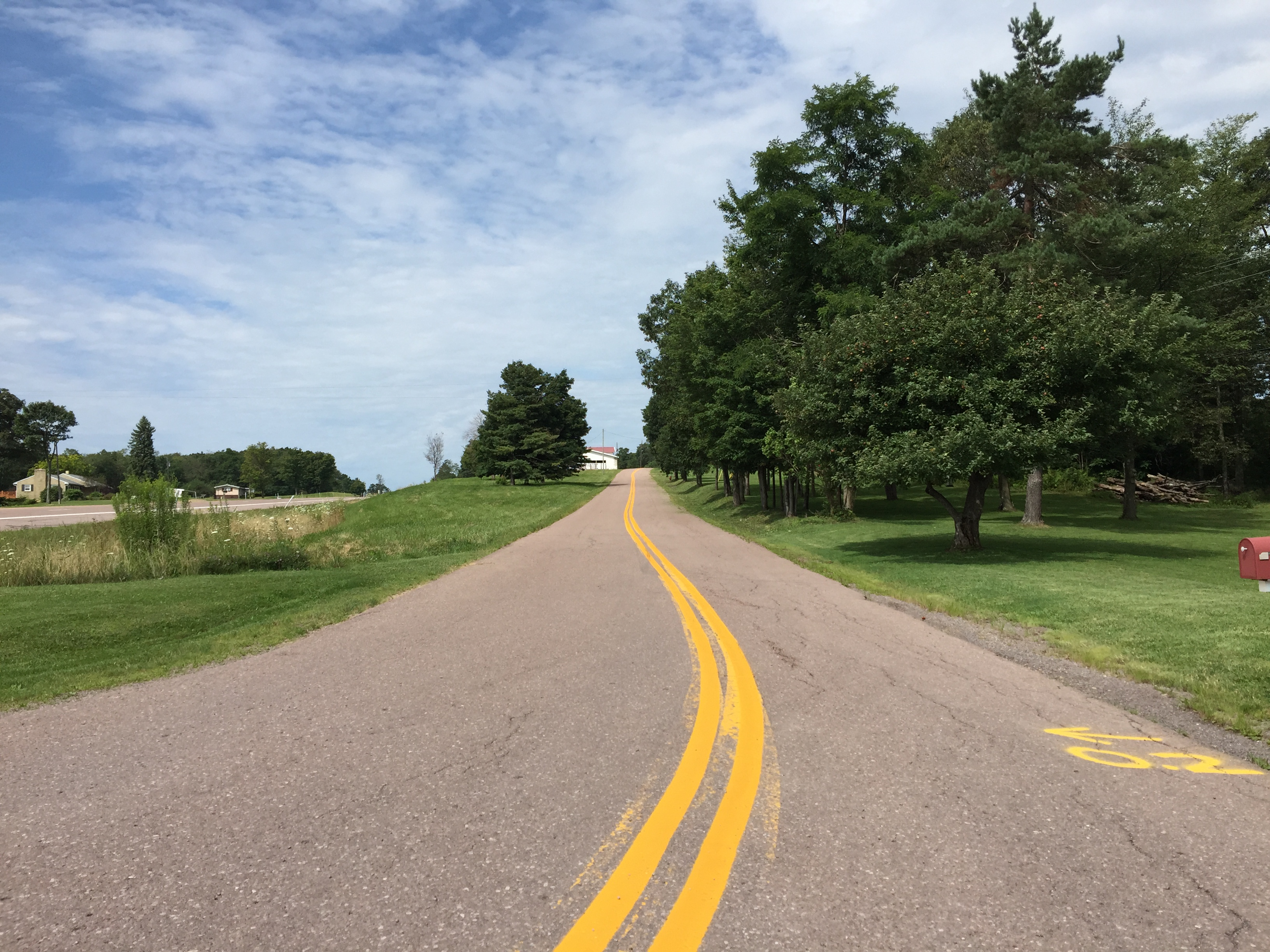 View south along Maryland State Route 826 (Stockyard Road) at U.S. Route 219 (Garrett Highway) in Keysers Ridge, Garrett County, Maryland